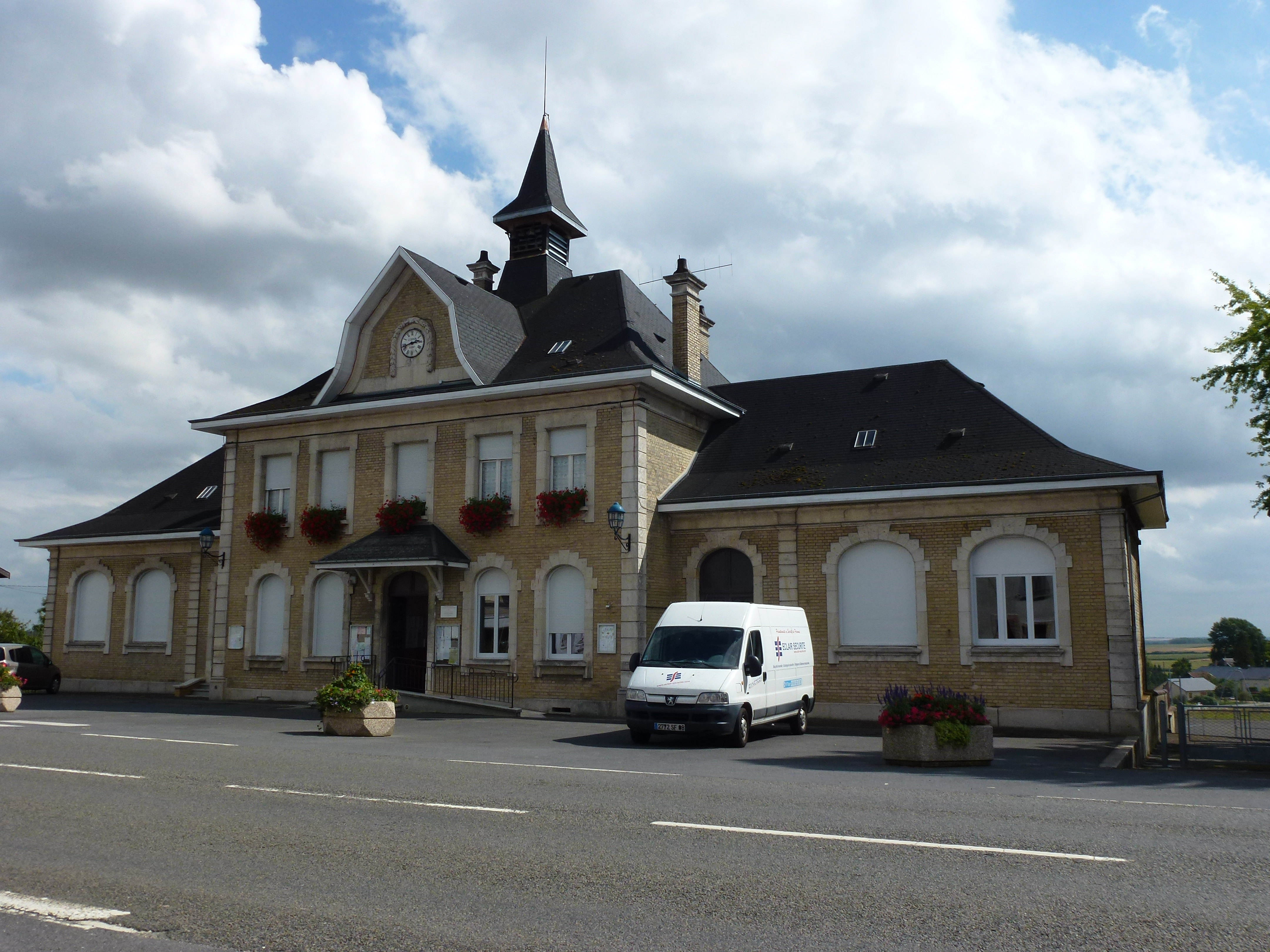 Novy-Chevrières (Ardennes) mairie